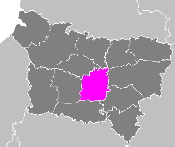 Maps of arrondissements and cantons of France: Arrondissement de Compiègne.PNG